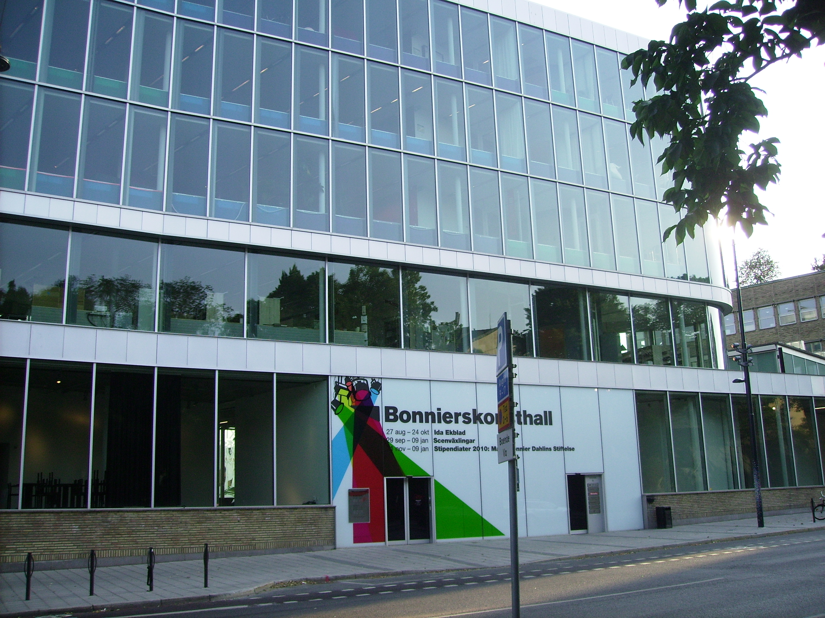 Picture of Statens musiksamlingar, Statens musikbibliotek and Svenskt Visarkiv at Torsgatan 19 in Stockholm